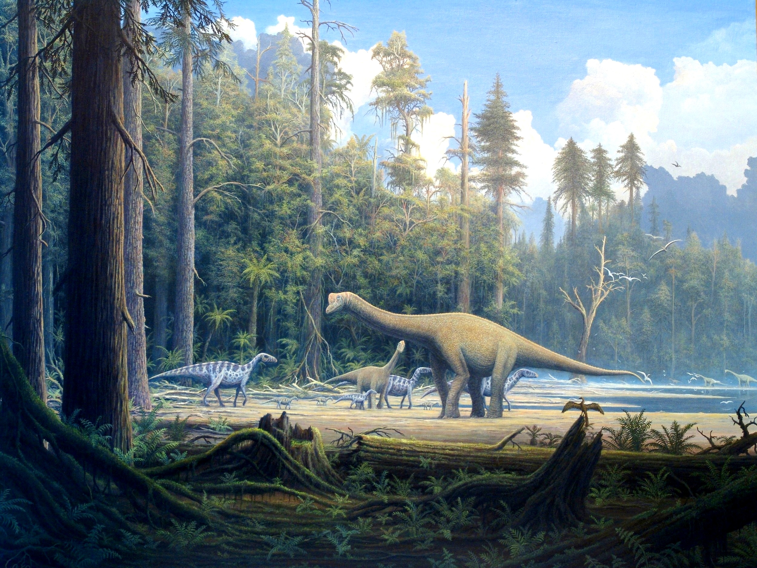 Painting of a late Jurassic Scene on one of the large island in the Lower Saxony basin in northern Germany. It shows an adult and a juvenile specimen of the sauropod Europasaurus holgeri and several iguanodons passing by.